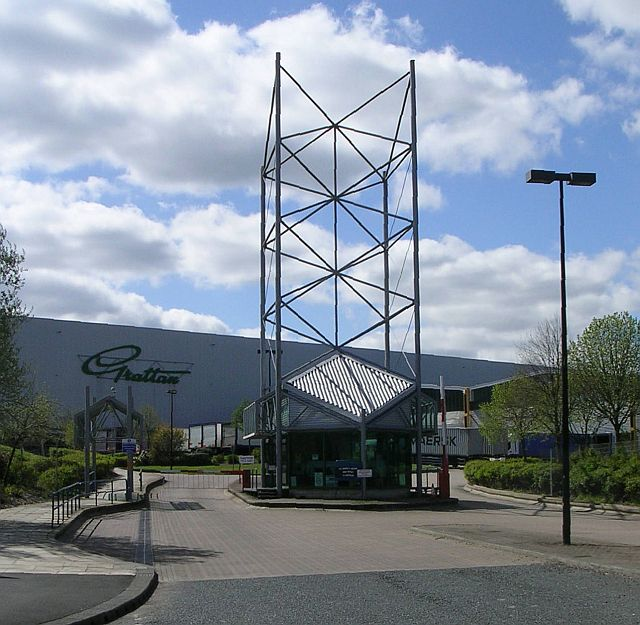 Grattan Stores - Thornton Road